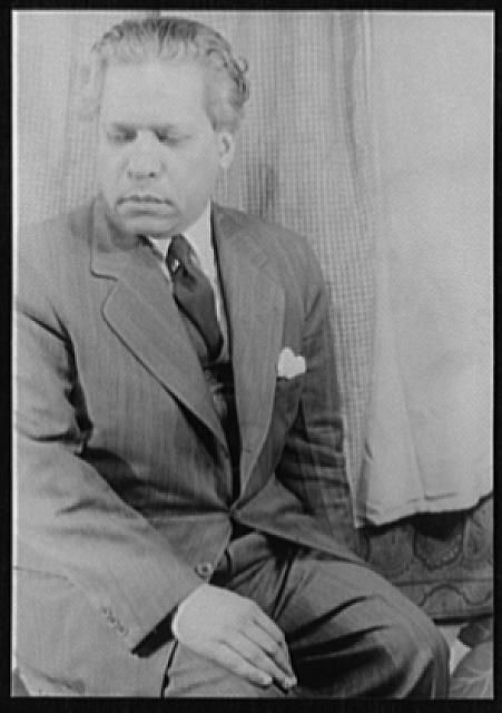 Title: Portrait of Nicolás Guill n Abstract/medium: 1 photographic print : gelatin silver.